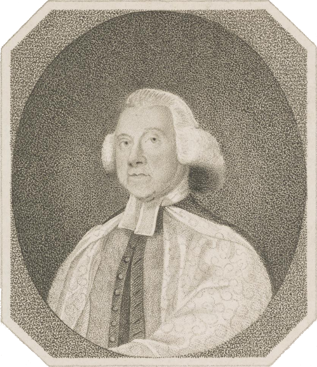 John Alcock (1715–1806) or John Alcock (1740-1791), from a portrait by Robert Cooper (d. 1828), engraved by W. Newman in 1797. Note: Alcock Sr. (b. 1715) is stated to be depicted by the National Portrait Gallery website while Alcock Jr. (b. 1740) is proposed instead by the National Galleries website. The younger Alcock is the elder Alcock's son, and both were doctors of music, as the full engraving states.